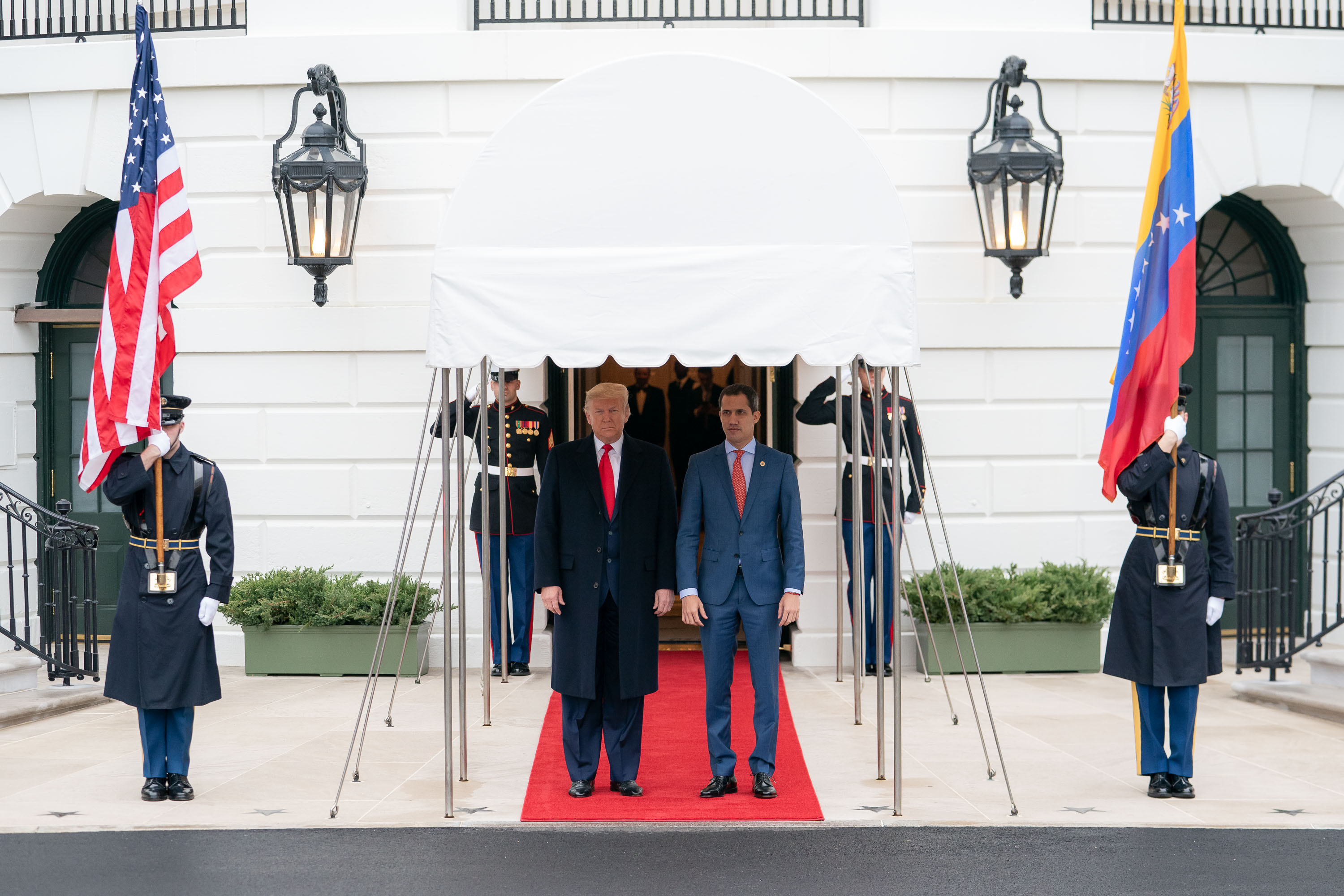 President Donald J. Trump welcomes Interim President of the Bolivarian Republic of Venezuela Juan Guaido Wednesday, Feb. 5, 2020, at the South Portico of the White House. (Official White House Photo by Tia Dufour)